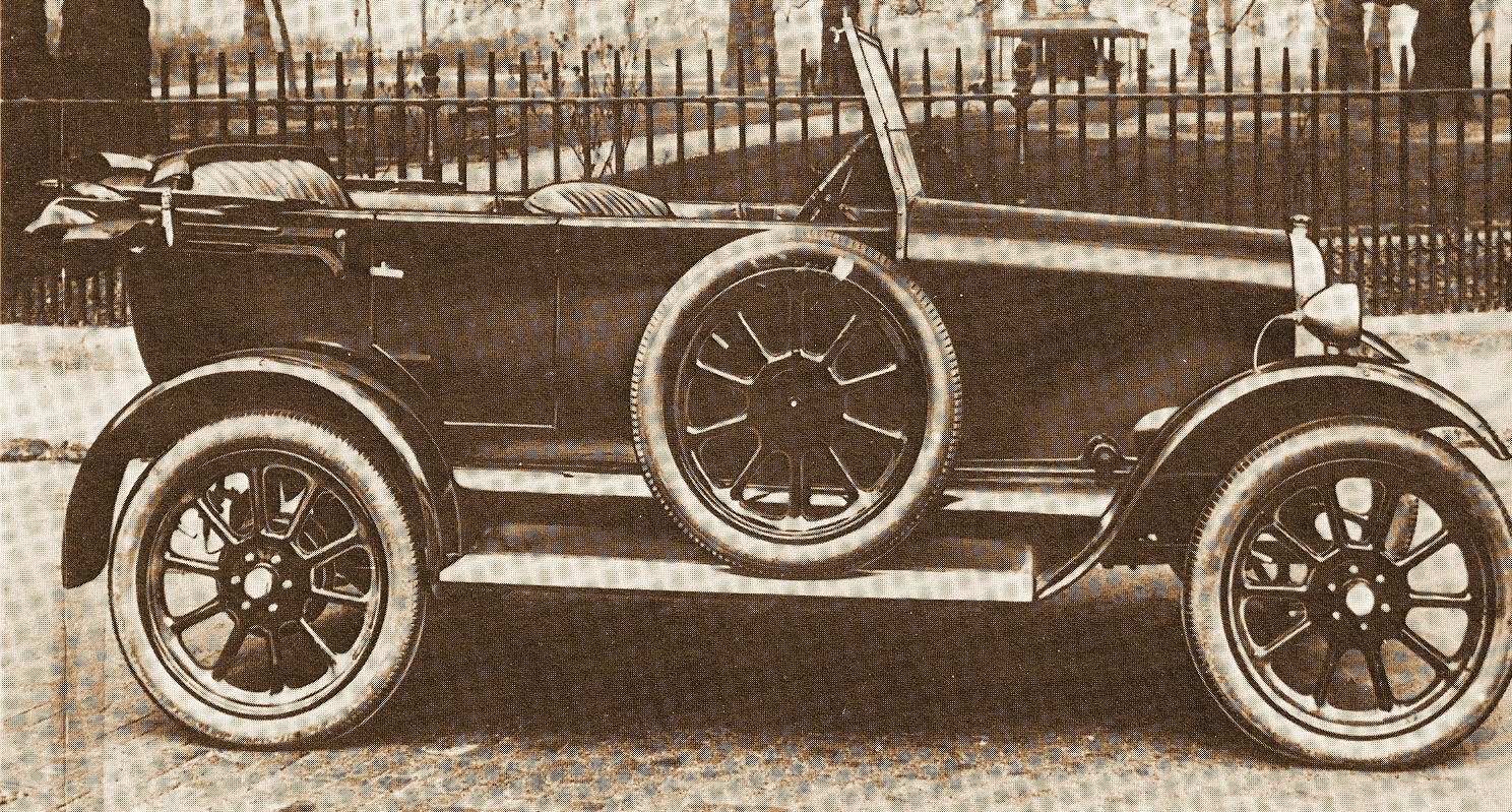 1927 seaton-Petter 10/18 hp